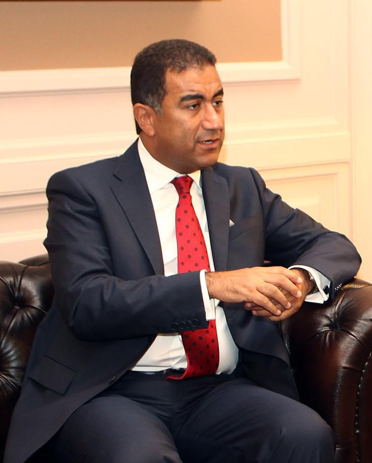 On Wednesday, September 12, 2012, Foreign Minister Dimitris Avramopoulos (not shown) met at the Foreign Ministry with the Secretary General of the Union for the Mediterranean Fathallah Sijilmassi, who is visiting Greece.